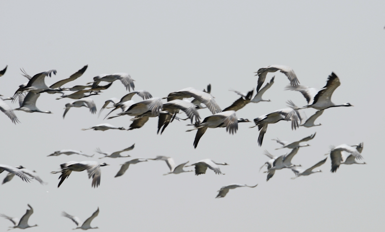 Demoiselle Cranes Grus virgo in flight at Tal Chhapar Black Buck Sanctuary, District Churu, Rajasthan.